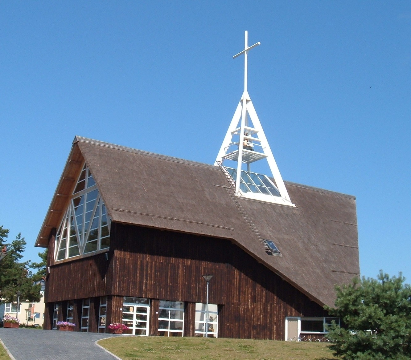 New catholic church in Nida